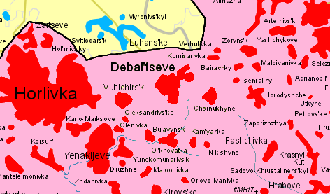 The aftermath of the Battle of Deblatseve.